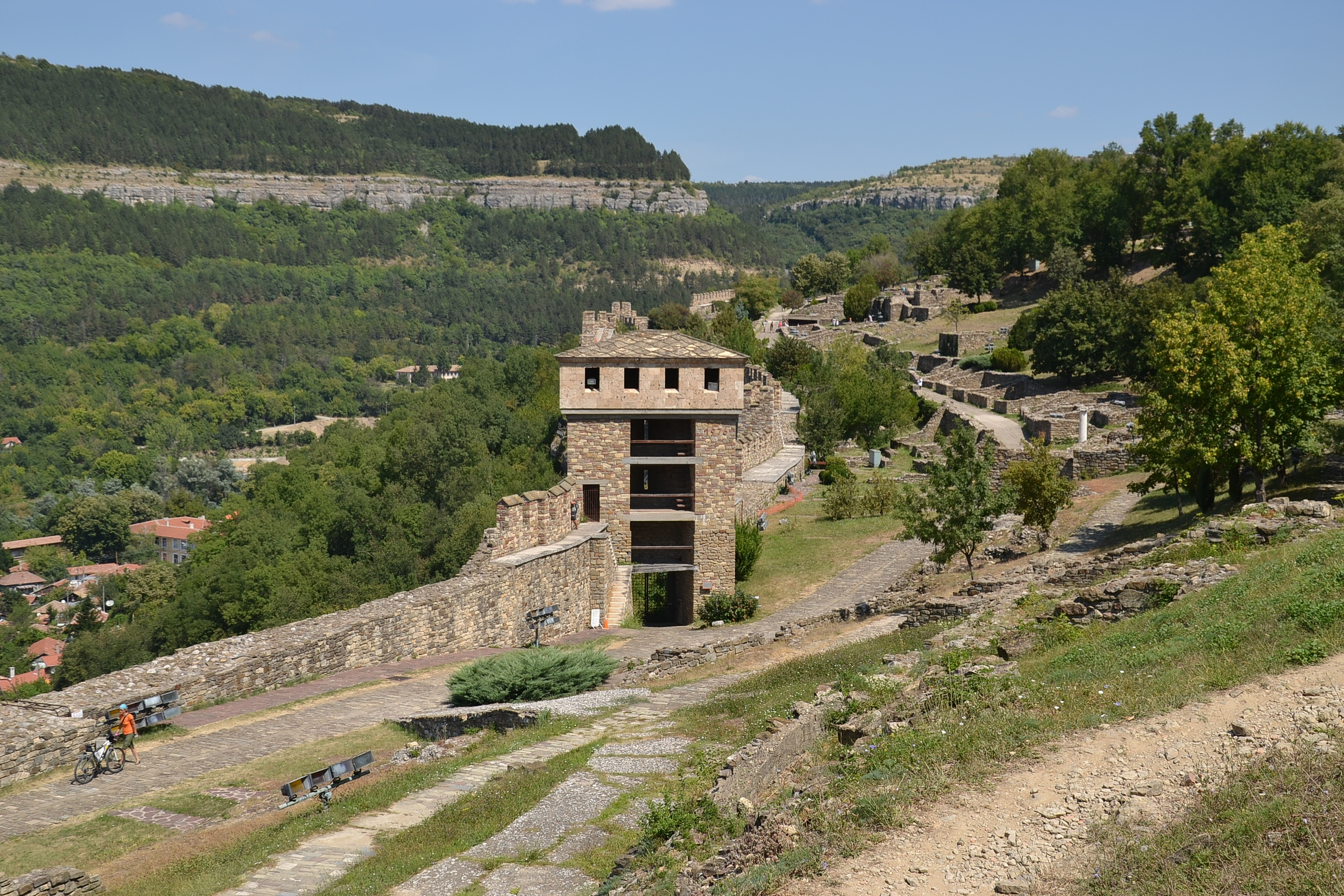 Veliko Tarnovo (Велико Търново), Bulgaria - Tsarevets